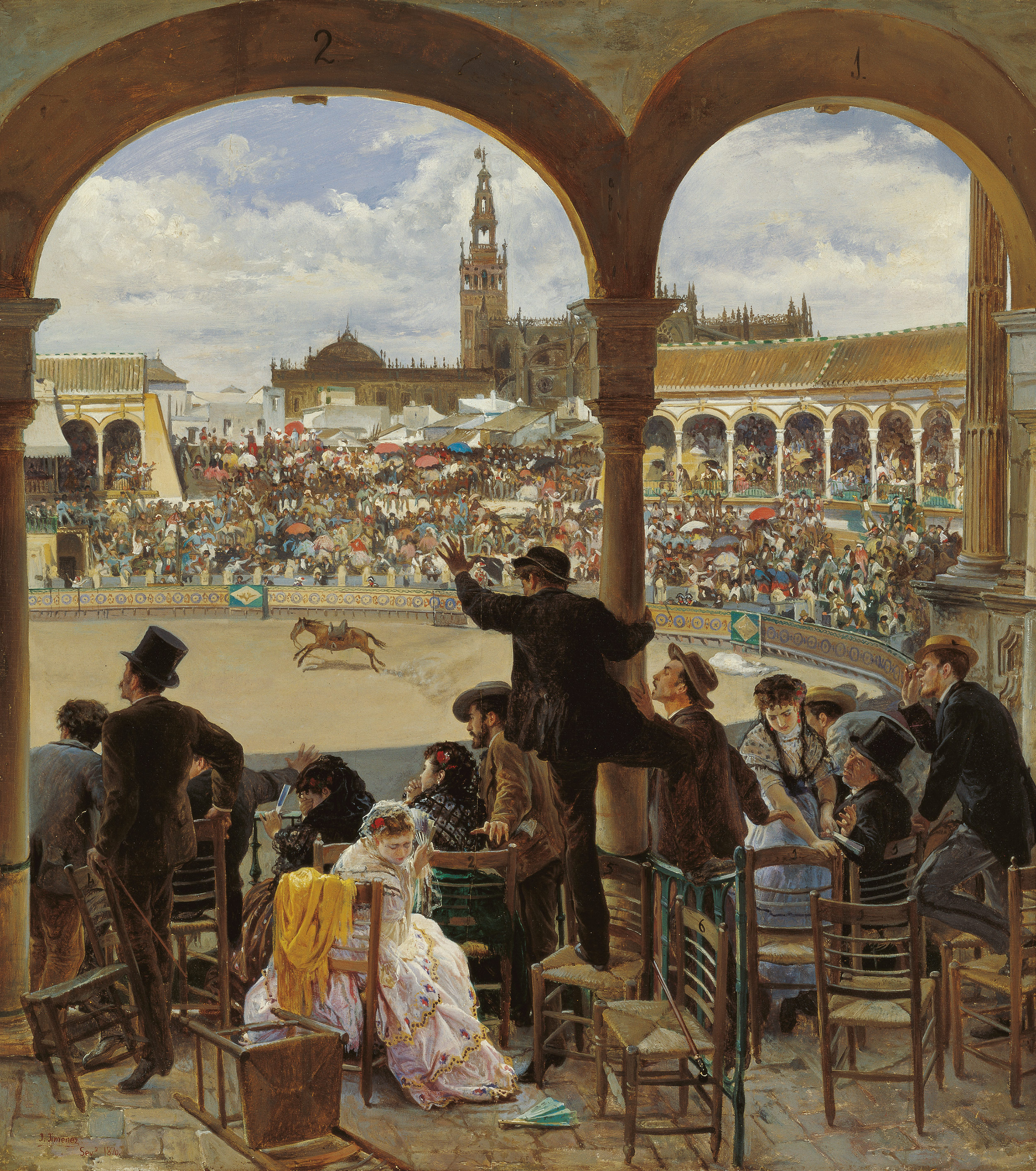 José Jiménez Aranda A Pass in the Bullring 1870. Oil on panel. 51 x 46 cm, Inv. CTB.1995.42 Carmen Thyssen Museum Native nameMuseo Carmen Thyssen MálagaLocationMálaga, (Spain)Coordinates36° 43′ 17″ N, 4° 25′ 22″ W Established2011Web page control : Q5043601 VIAF: 230371067 LCCN: no2012034269 OSM: 5583647 GND: 16335044-9 SUDOC: 163469776 WorldCat institution QS:P195,Q5043601